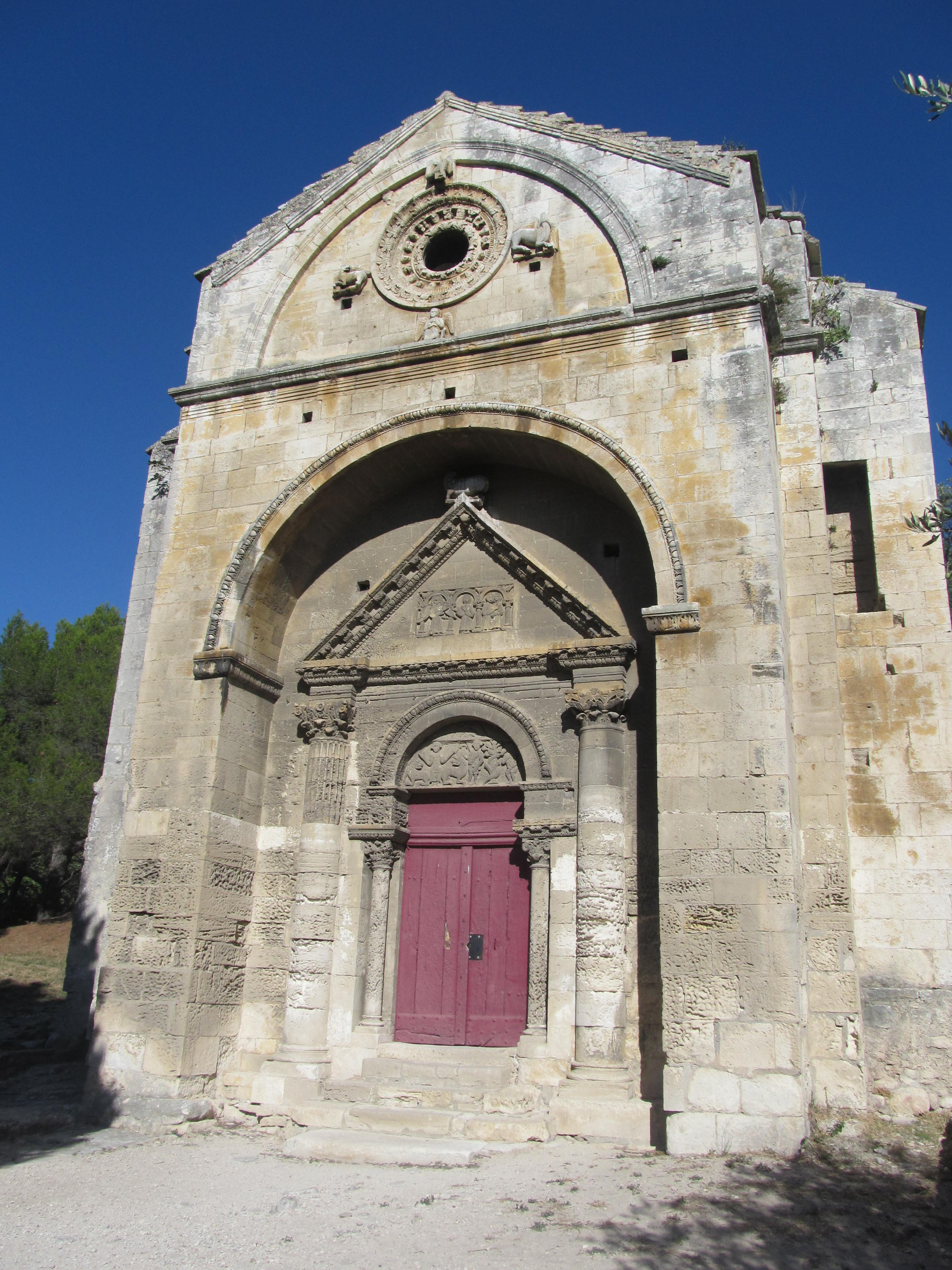 Chapelle St. Gabriel Tarascon - Front